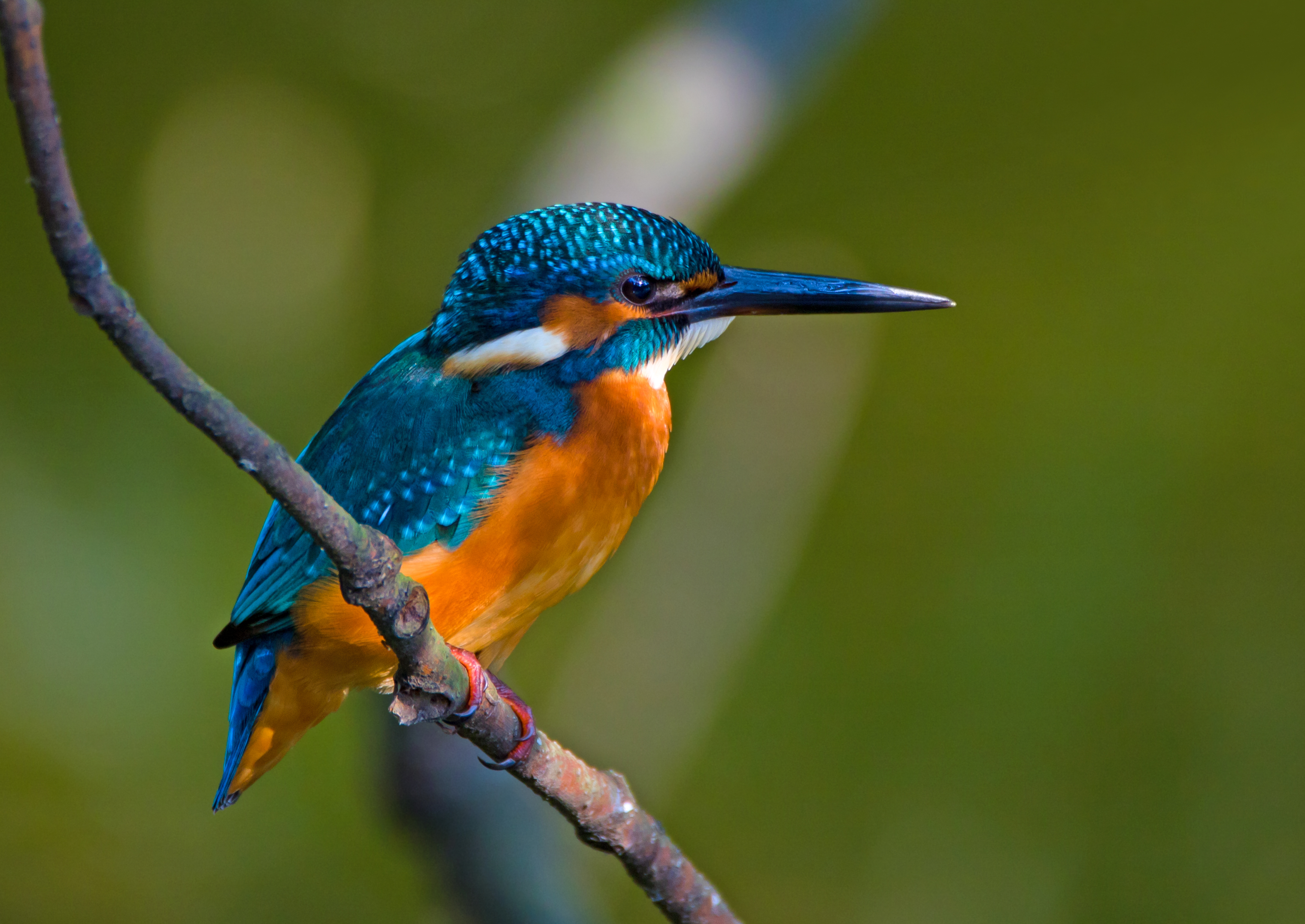 Common kingfisher, Tennōji Park, Osaka.